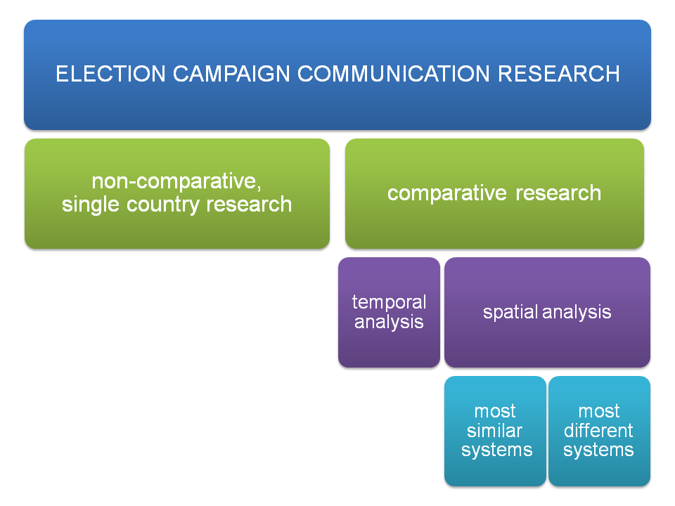 This graphic shows how election campaign communication can be examined.